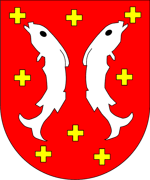 coats of arms of the lordship of Rixingen